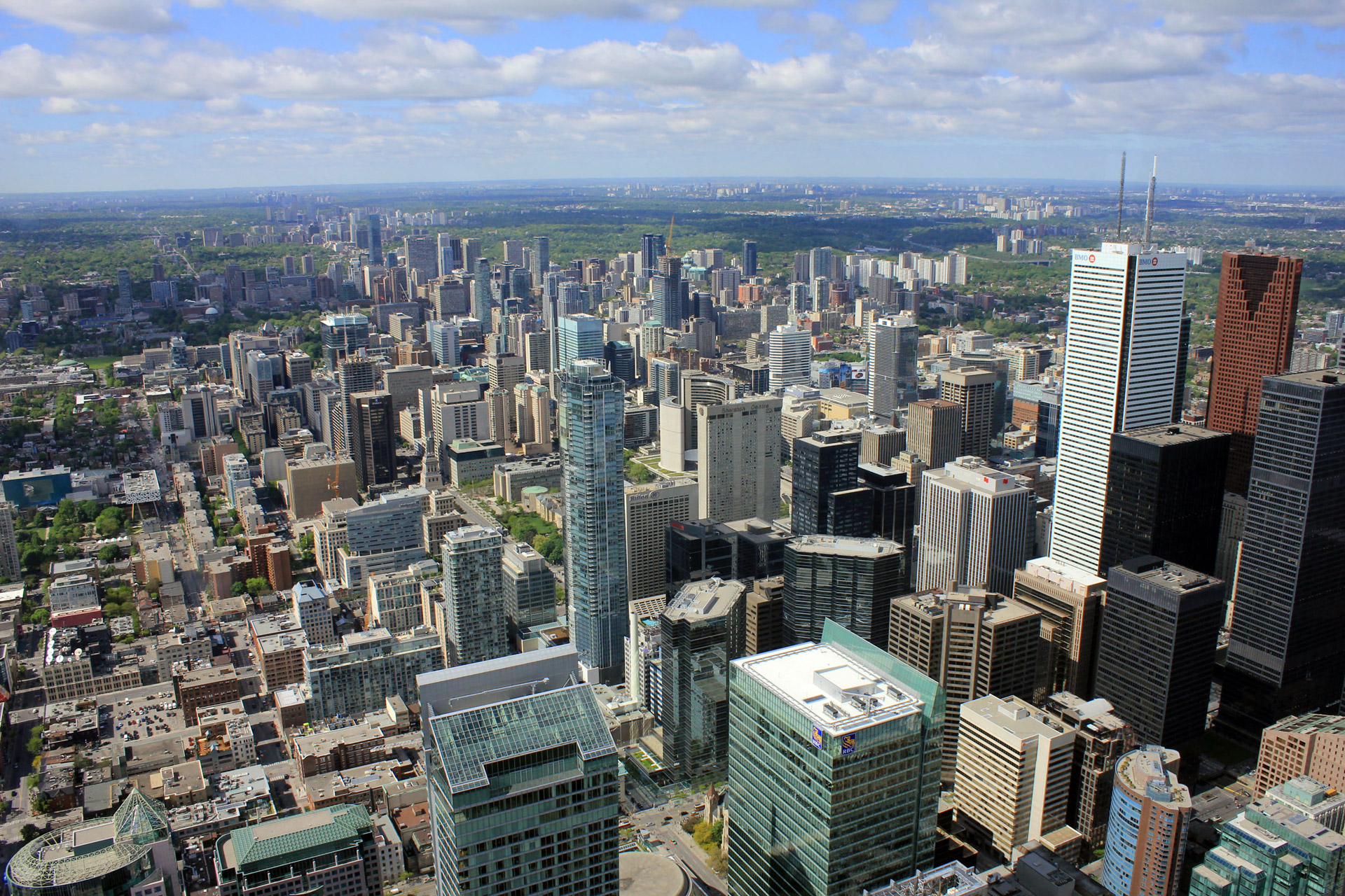 View from the CN Tower, facing northeast